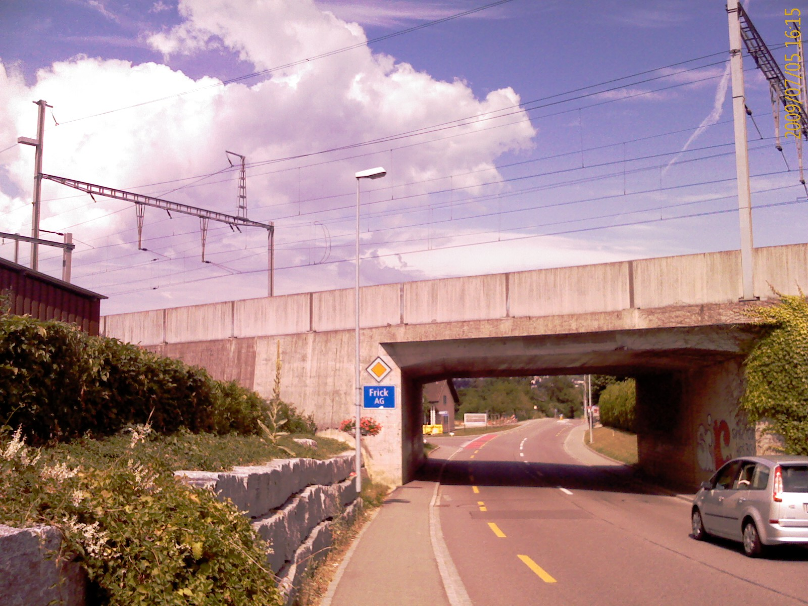 Railway bridge at Frick, canton of Aargau, SwitzerlandEsperanto: Fervojsubpasejo en Frick, Kantono Argovio, Svislando